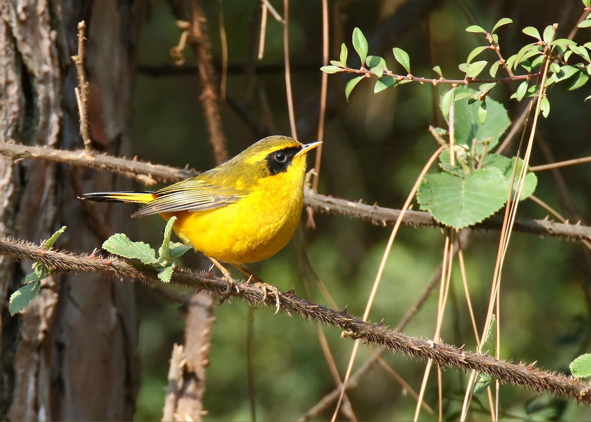 Golden Bush-robin (Tarsiger chrysaeus) captured at Angoori, Murree, Punjab, Pakistan with Canon EOS 7D Mark II